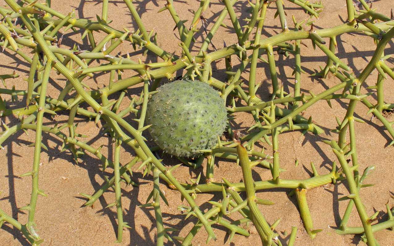 Nara (Acanthosicyos horridus) et son fruit dans le désert de Namibie